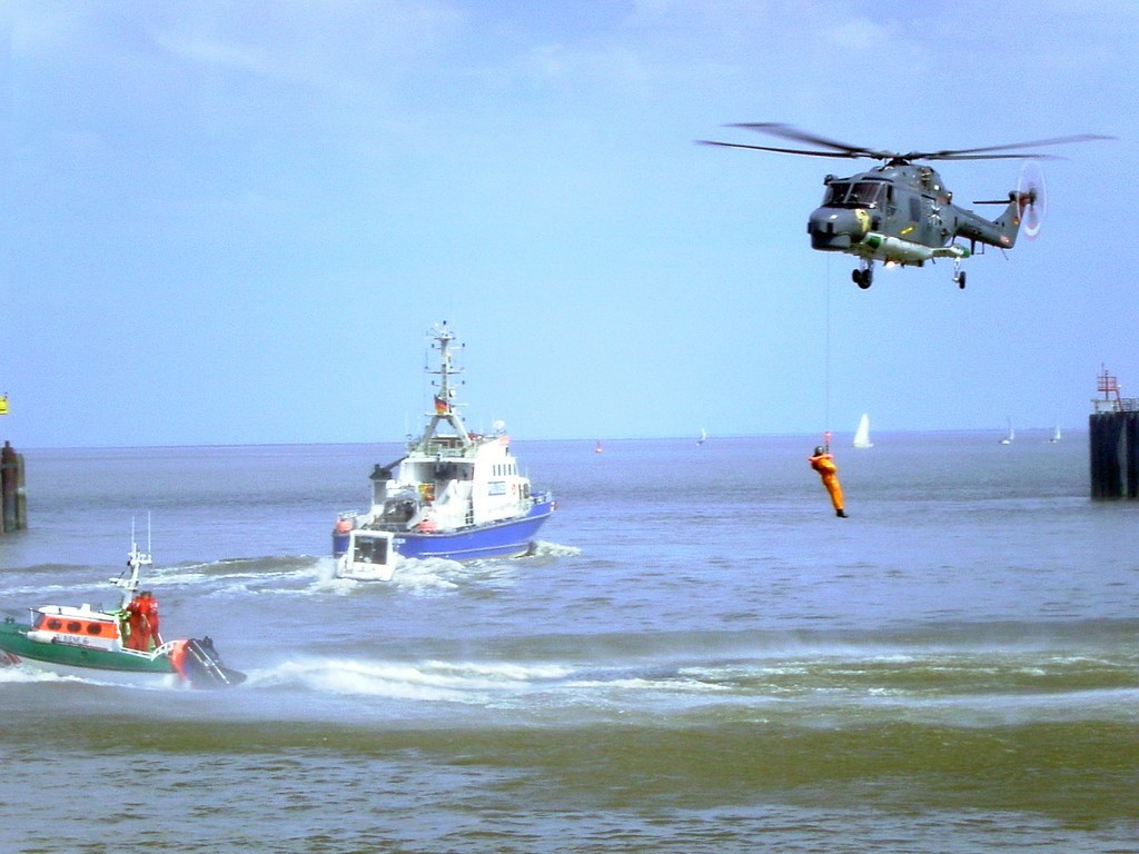 A sea search and rescue exercise in the port of Cuxhaven, Germany. A castaway is being lifted onto a Sea Lynx MK 88 A helicopter of the German Navy.